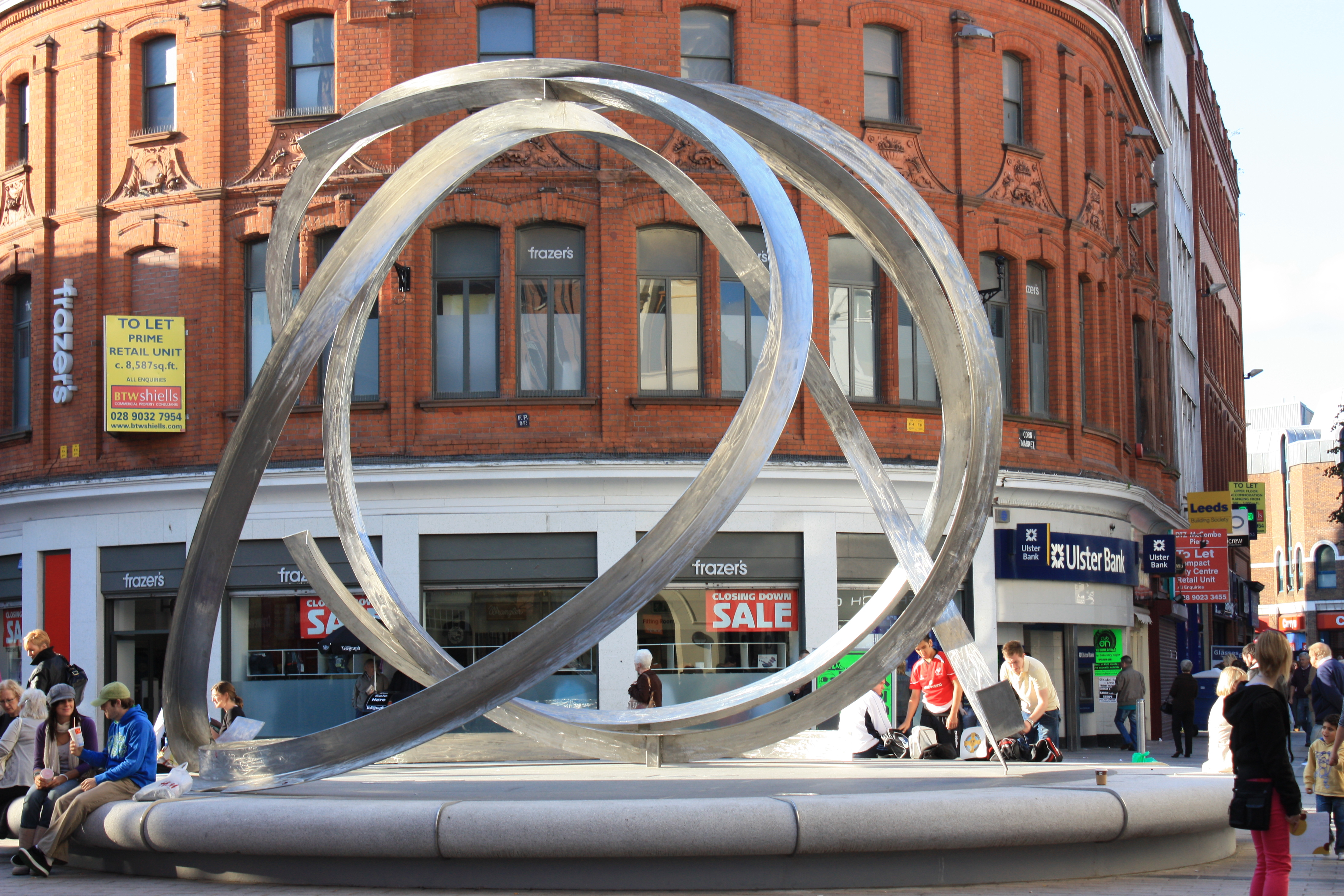 "Spirit of Belfast" by Dan George, Cornmarket, Belfast, Northern Ireland, October 2009